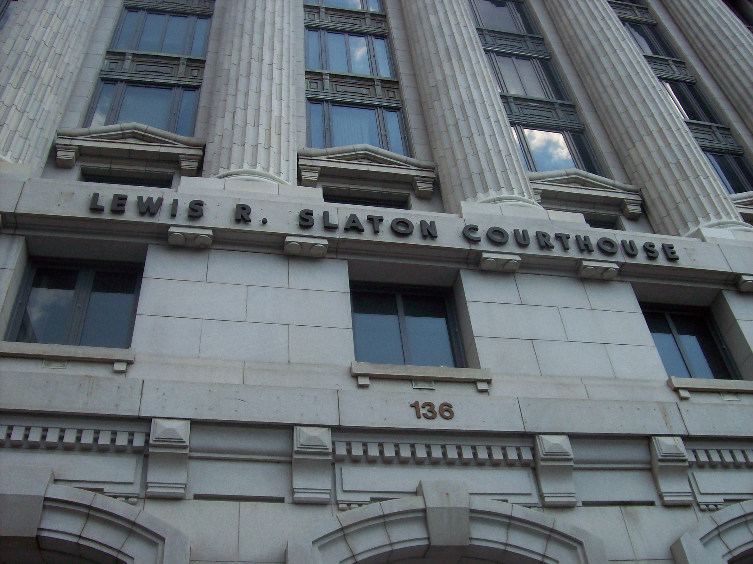 The Fulton County Courthouse facade located at 136 Pryor Street SW. Many of the cases going to Fulton County Superior Court go to the Fulton County Justice Center, located at 185 Central Avenue SW.